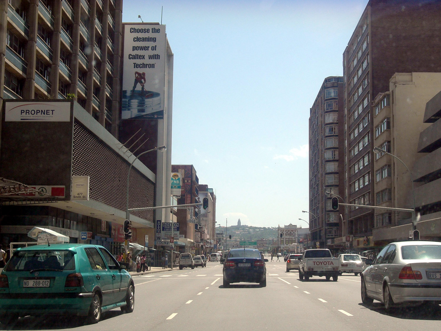 central city of Durban, South Africa